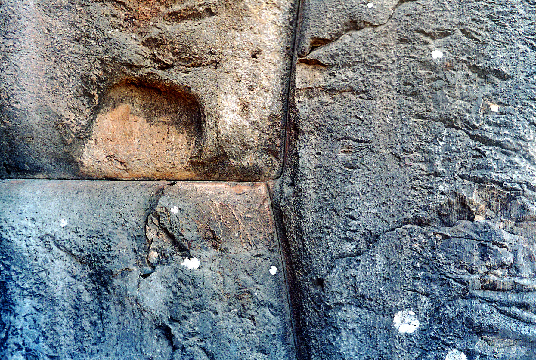 Sacsahuamán (Sacsayhuamán), Cusco, Peru. The photo was taken in June 2002 by Håkan Svensson (Xauxa).